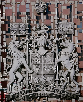 Coat of arms of Canada in Downtown of Edmonton.